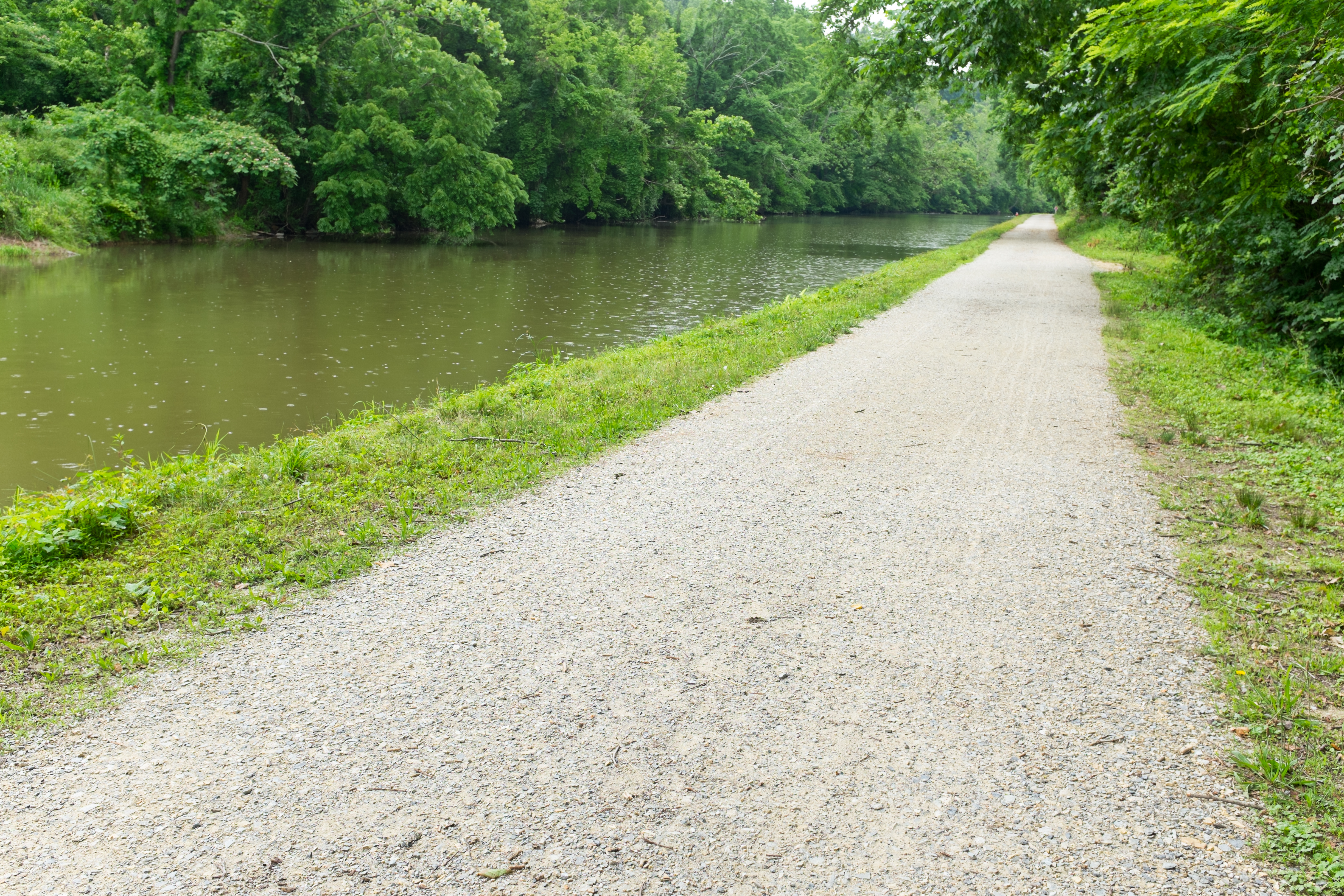 Remains of Little Falls Skirting Canal (Patowmack Company) repurposed for the Chesapeake and Ohio Canal, now known as the 4 mile level, between locks 4 and 5. Note: only part of the 4 mile level, from about Mile 5 to almost Fletcher's Boathouse is Geo. Washington's canal.